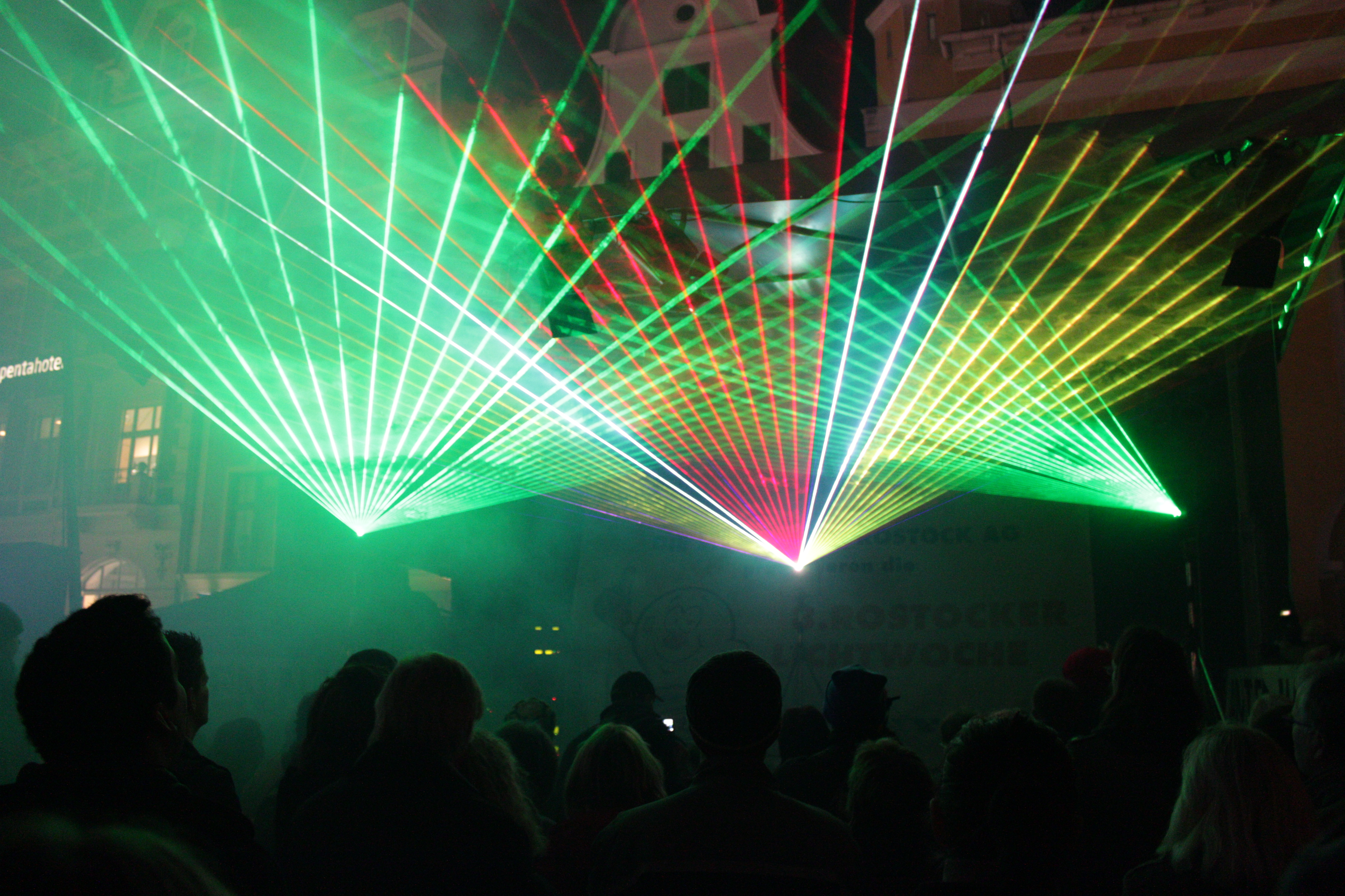 A laser light show during an annual fall event in Rostock, the "Rostocker Lichtwoche".